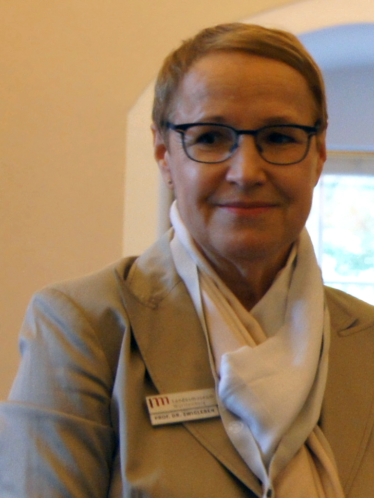 Cornelia Ewigleben, since 2005 director of Landesmuseum Württemberg (Stuttgart)